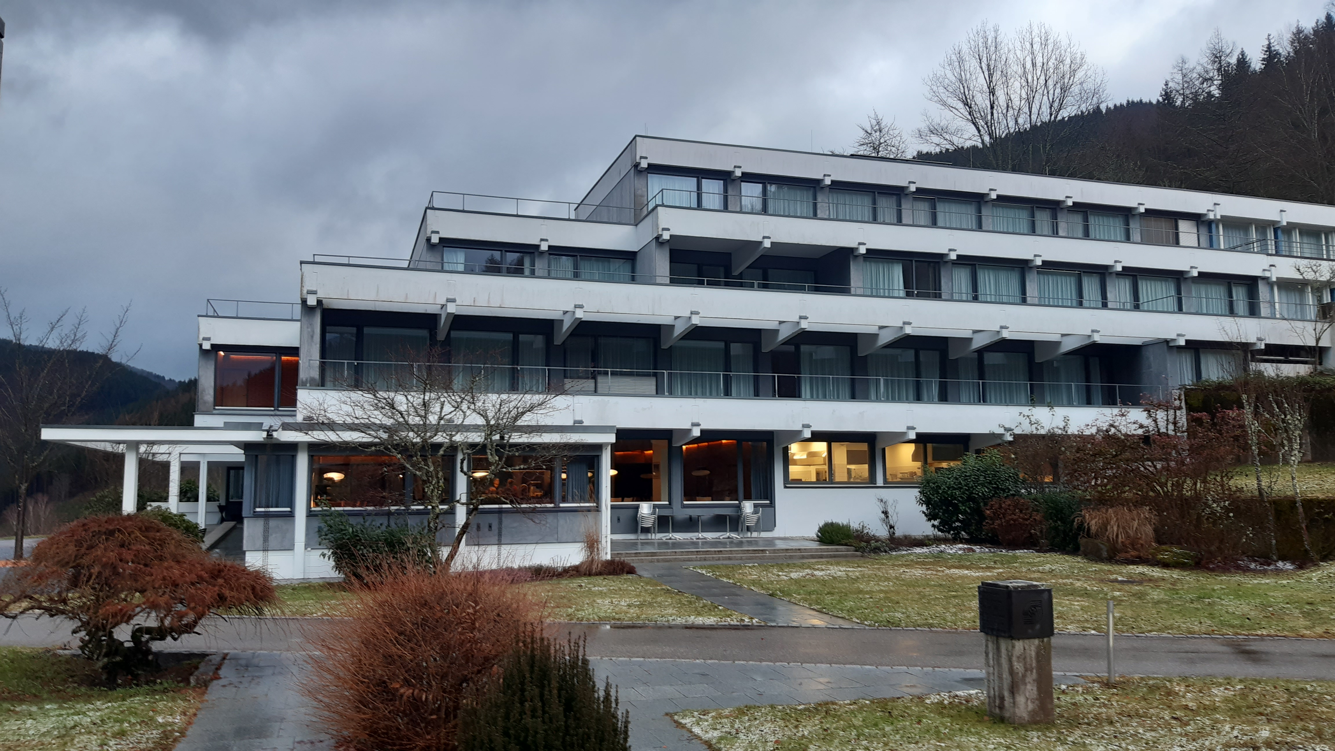 Mathematisches Forschungsinstitut Oberwolfach (=Mathematical research institute Oberwolfach). Oberwolfach, Schwarzwald region, Germany, Europe